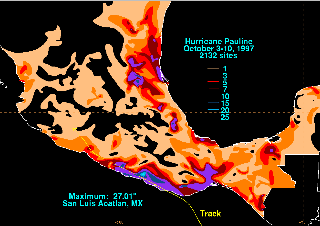 Storm total rainfall map of Hurricane Pauline during October 1997.